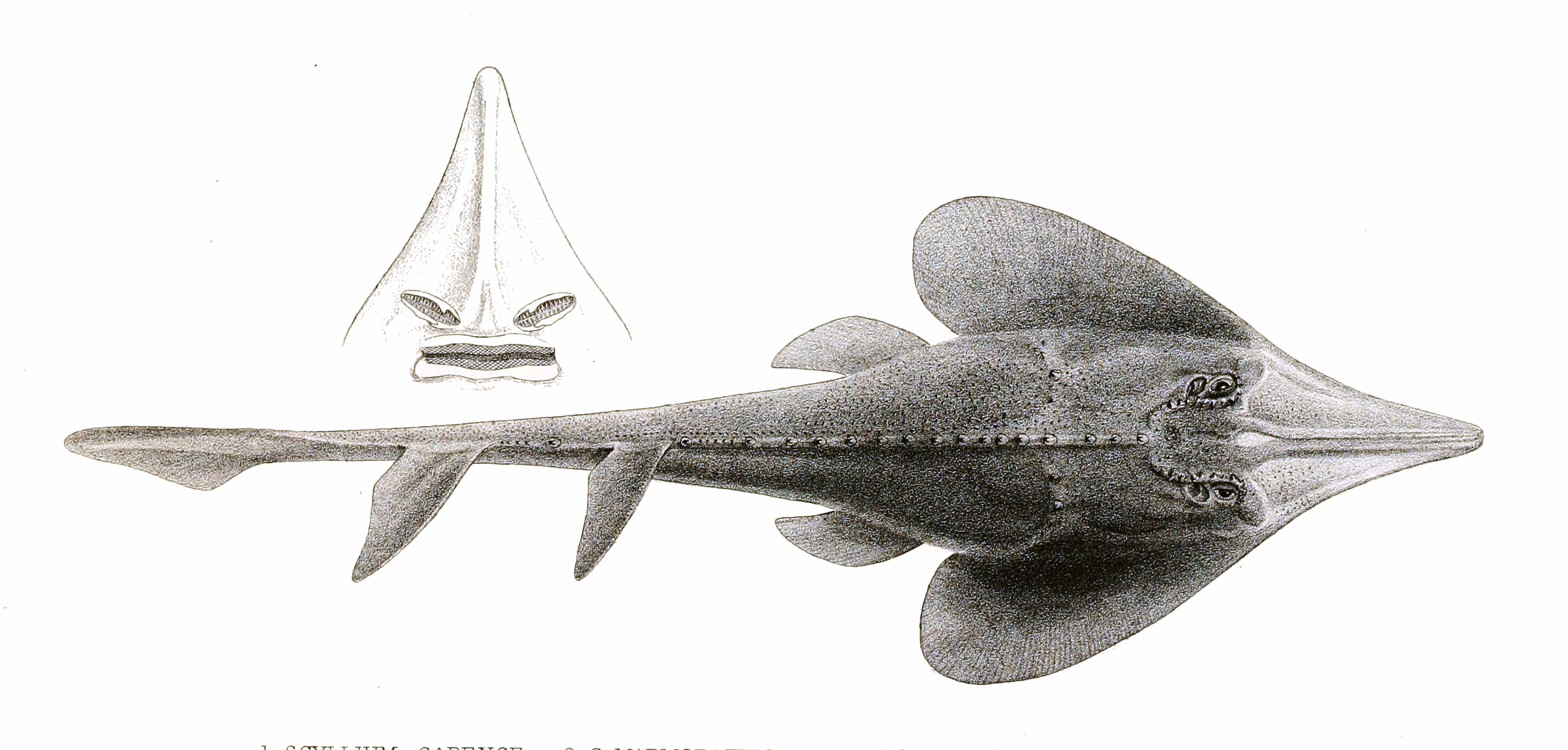 The species names / identity need verification - original names from plate are included here. The original plates showed the fishes facing right and have been flipped here. Rhinobates thouini